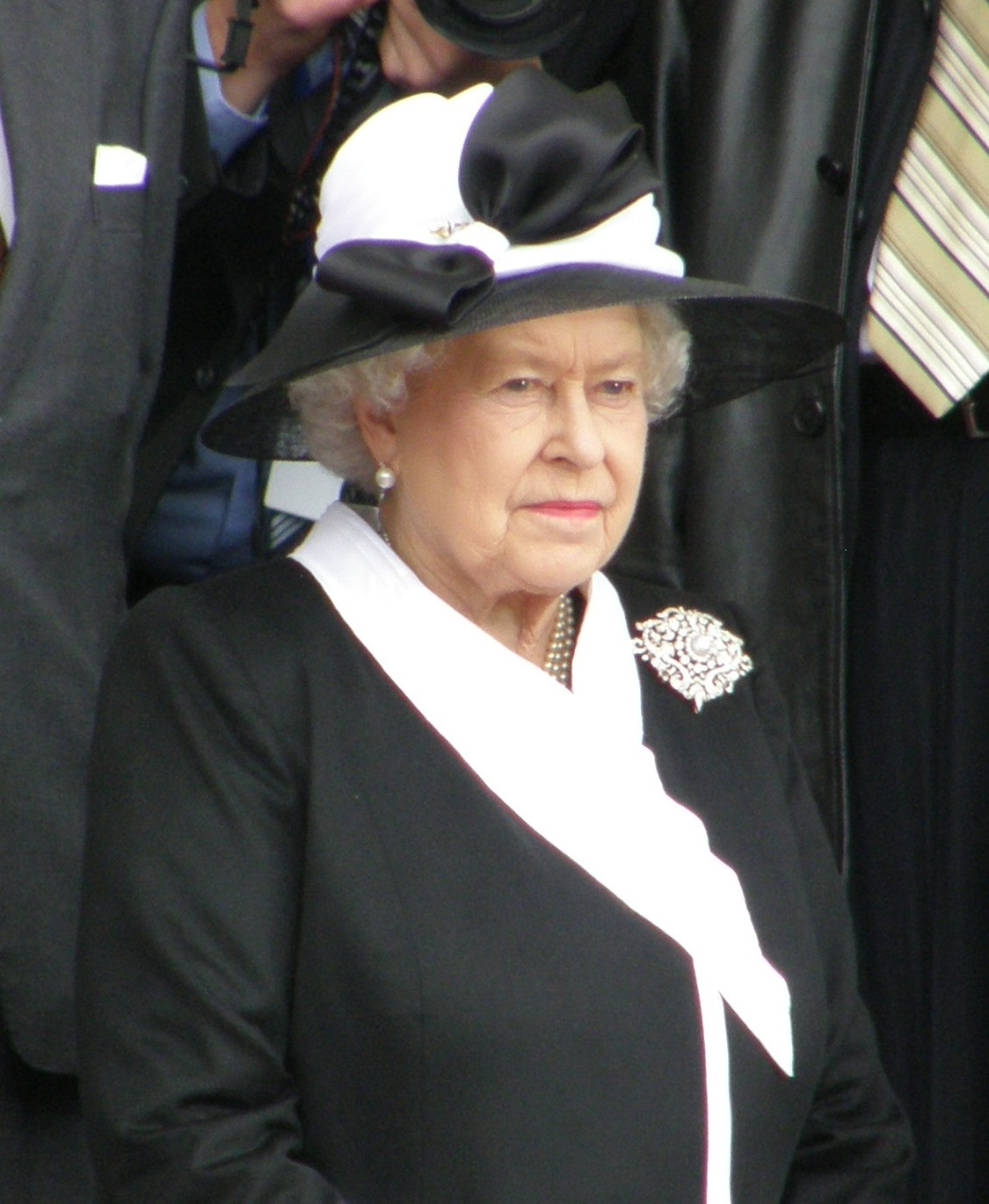 Queen Elisabeth II during a visit to Slovakia in 2008, Bratislava-Devín.